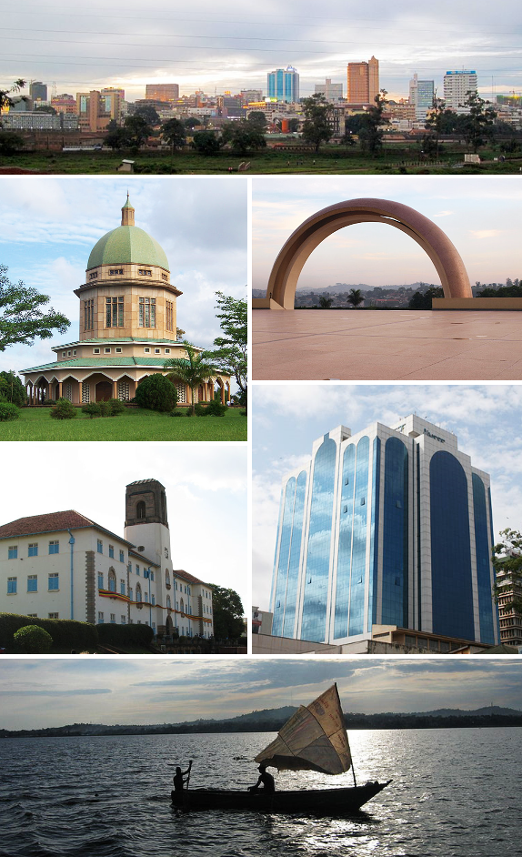 Montage of various landmarks in Kampala, Uganda.